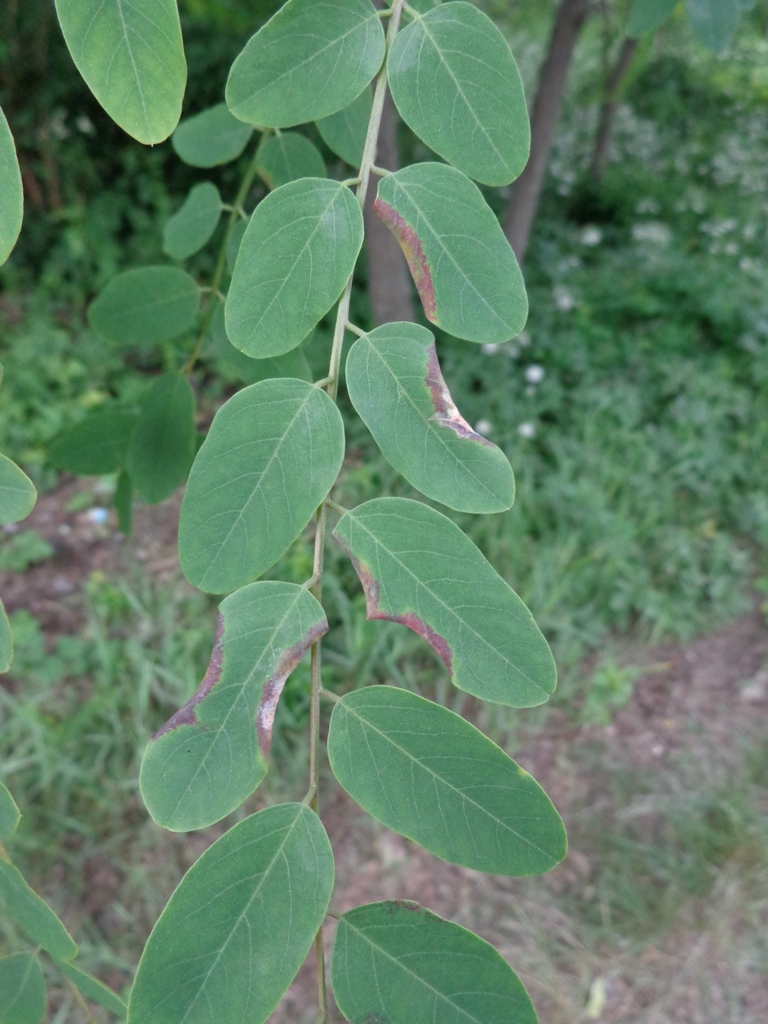 Obolodiplosis robiniae. Found in Rīga town, Latvia